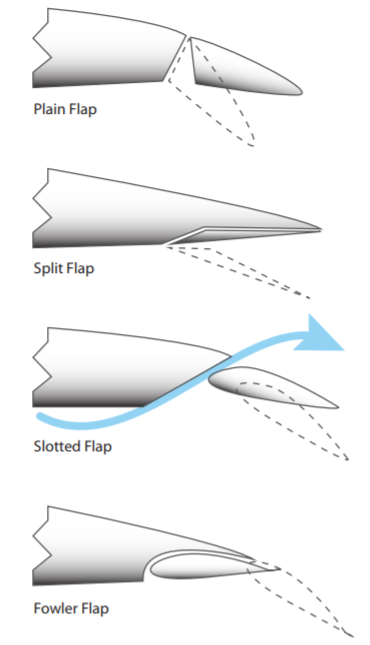 Different air flows shown through different flaps